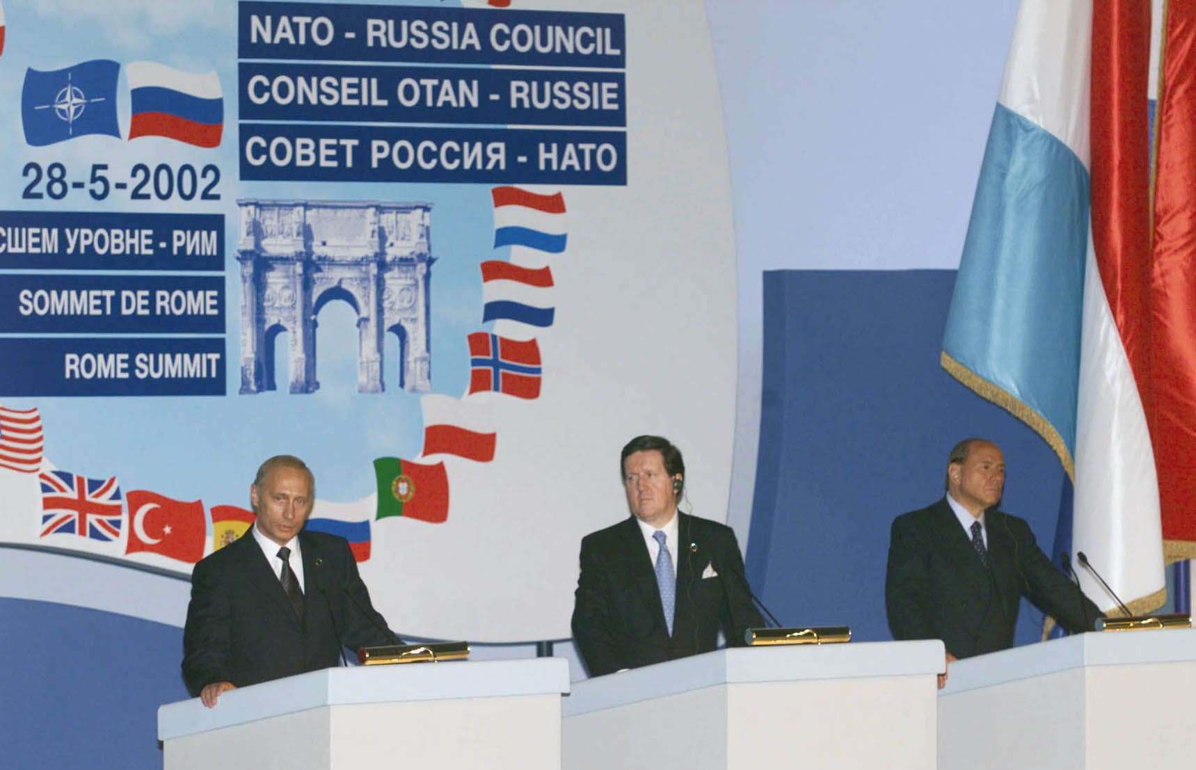 PRATICA-DI-MARE (Italian Air Force base). A joint press conference with Italian Prime Minister Silvio Berlusconi and NATO Secretary General George Robertson on the results of the Russia-NATO Summit.